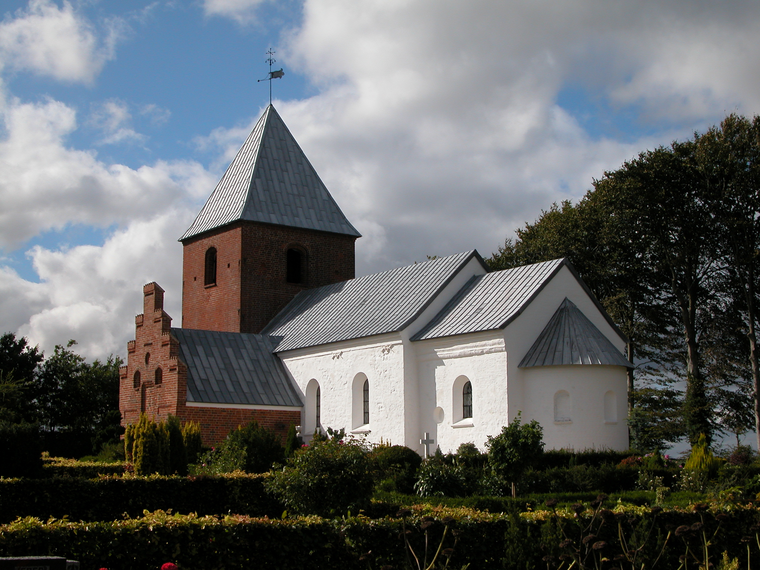 Skivholme Kirke, west of Aarhus, Jylland, Denmark